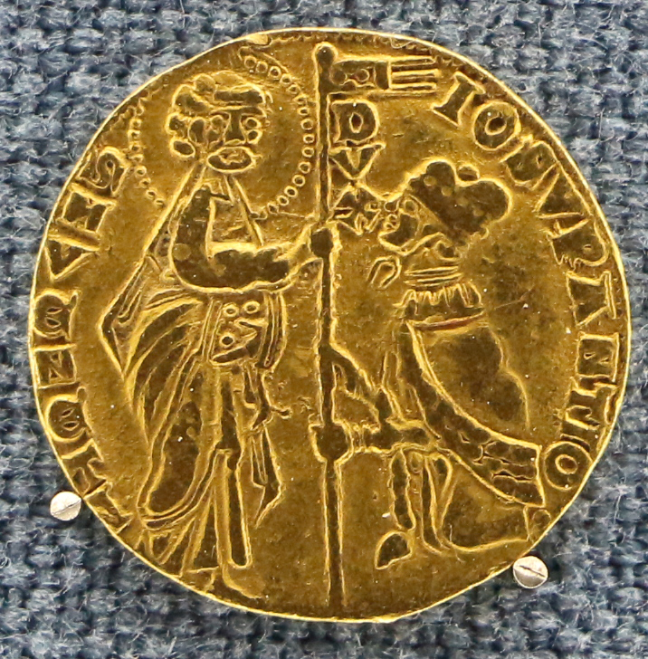 coins in Palazzo Blu (Pisa)